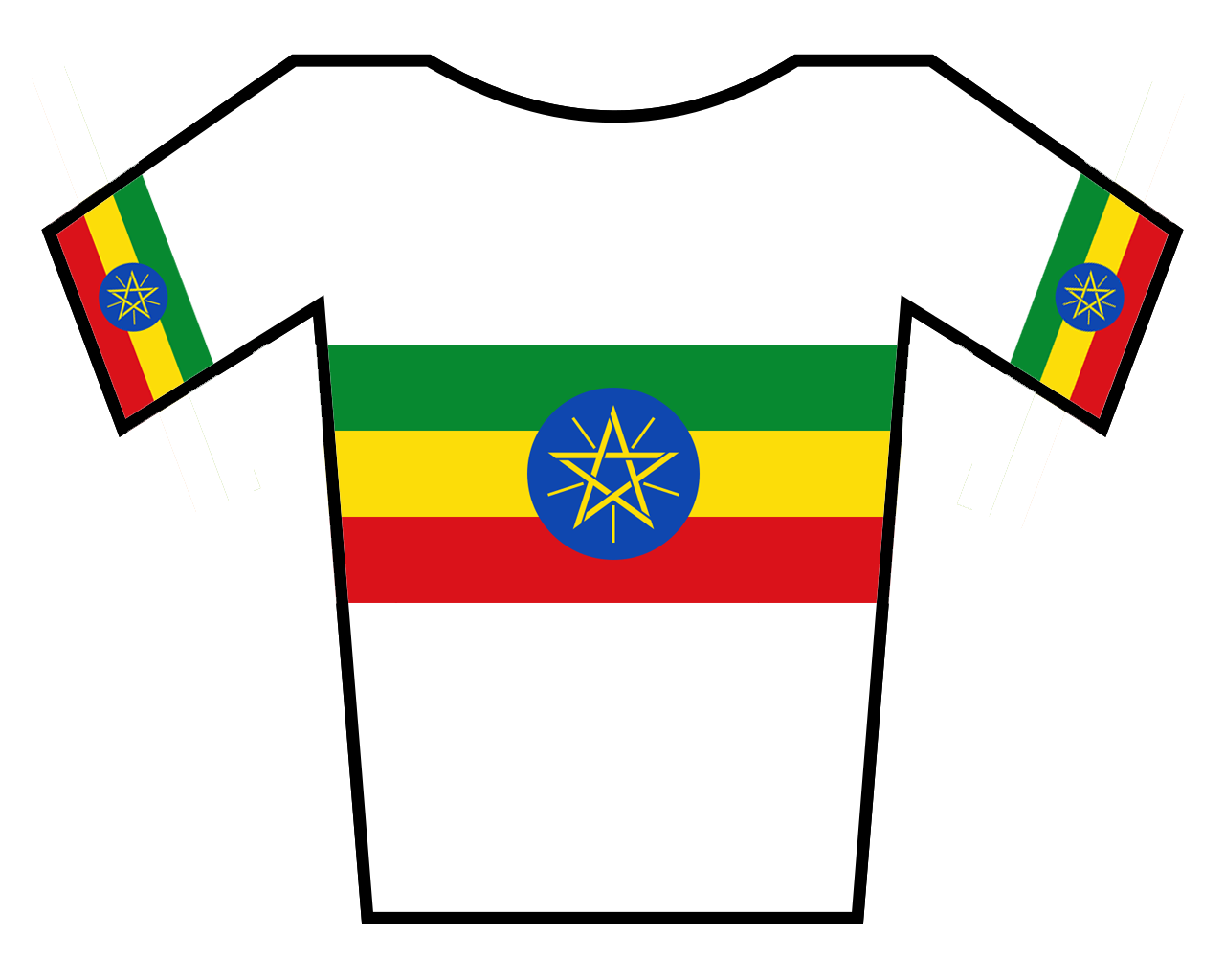 Jersey worn by the national champion of Ethiopia